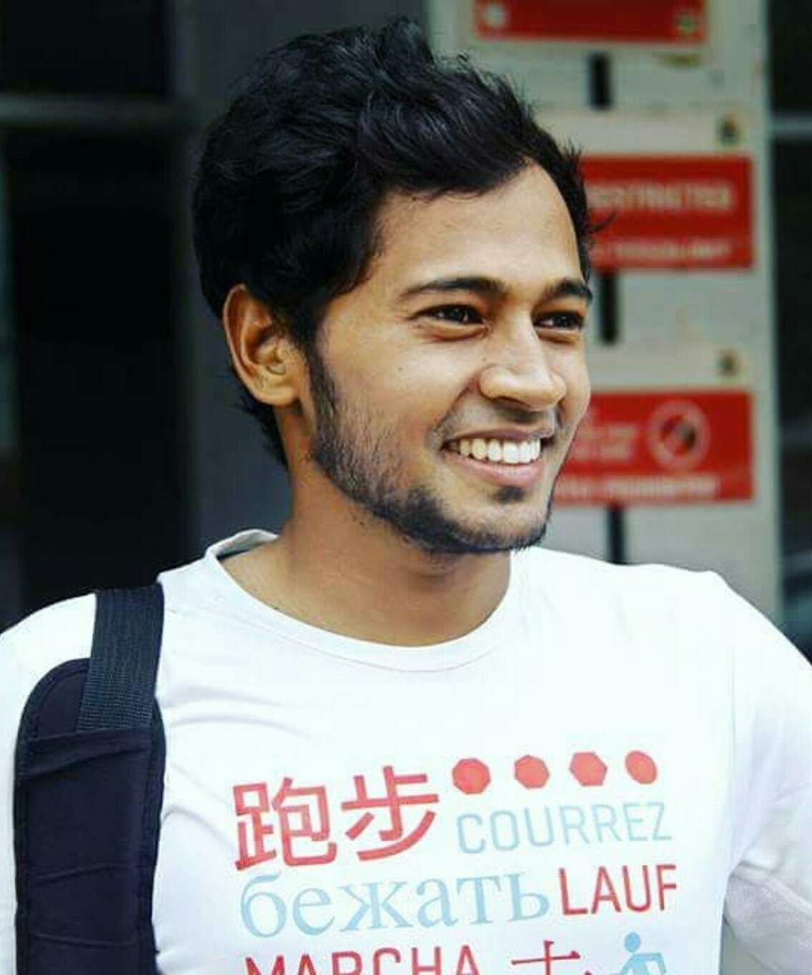 Mushfiqur Rahim at Mirpur 12